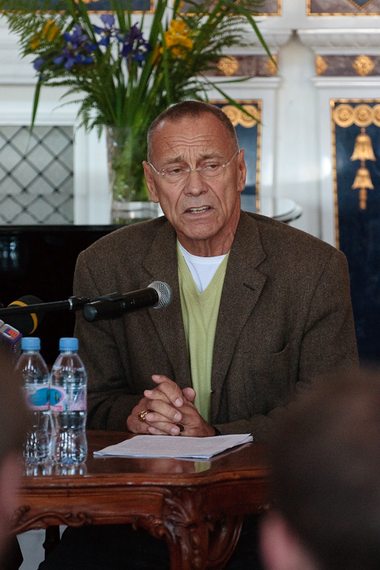 Andrei Konchalovsky (b. 1937), Soviet and Russian filmmaker.